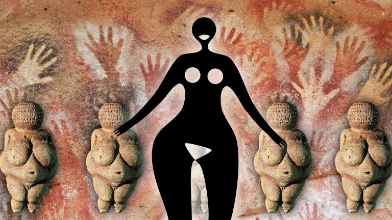 Still from the 2018 animated feature film Seder-Masochism by Nina Paley.